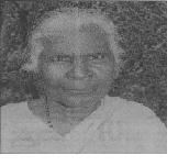 Mariamma Chedathy's photo from the personal collection of Sebastian vattamattam, the contributor of this article. E-mail ID